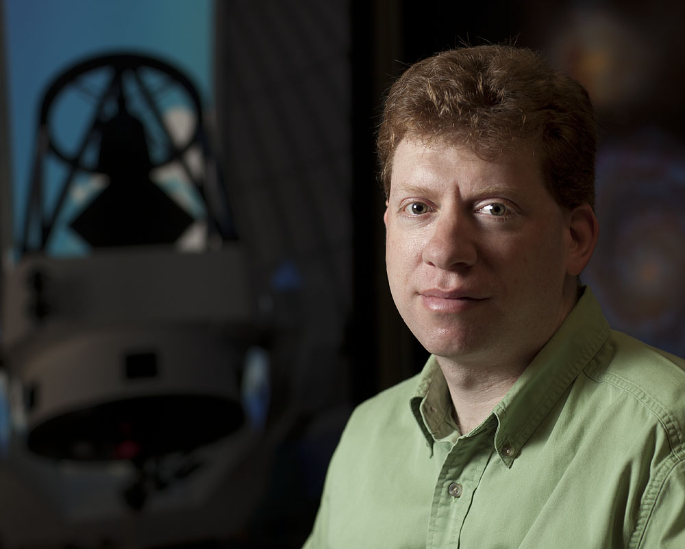 Bio Picture